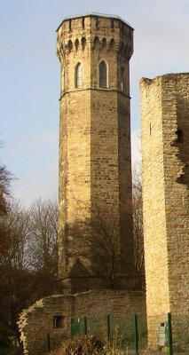 Vincketurm in Dortmund-Syburg (Germany)